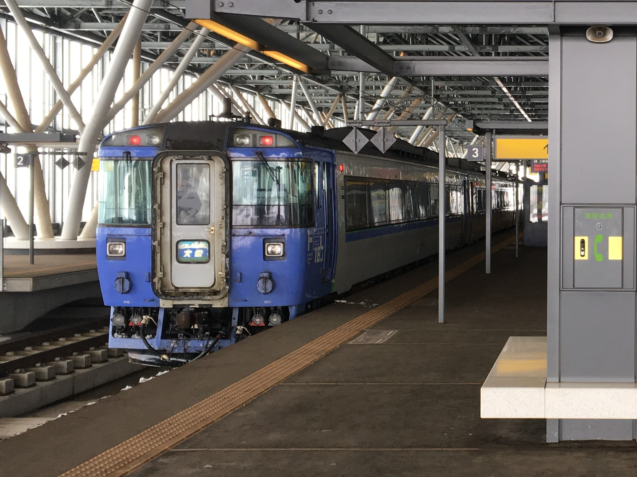 A JR Hokkaido KiHa 183 series DMU on the Taisetsu 2 service at Asahikawa Station in Hokkaido, Japan